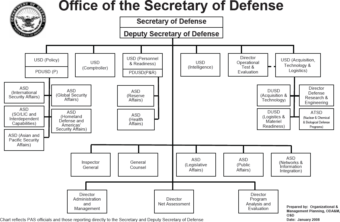 Organization chart of presidentially-appointed, Senate-confirmed officials in the Office of the Secretary of Defense in the United States. Military departments and defense agencies in the Department of Defense are not shown. Source: DoD Organization and Functions Guidebook, Jan 2008. USD = Undersecretary of Defense; ASD = Assistant Secretary of Defense; DUSD = Deputy Undersecretary of Defense; ATSD = Assistant to the Secretary of Defense; PDUSD = Principal Deputy Undersecretary of Defense; PAS = Presidentally appointed, Senate-confirmed